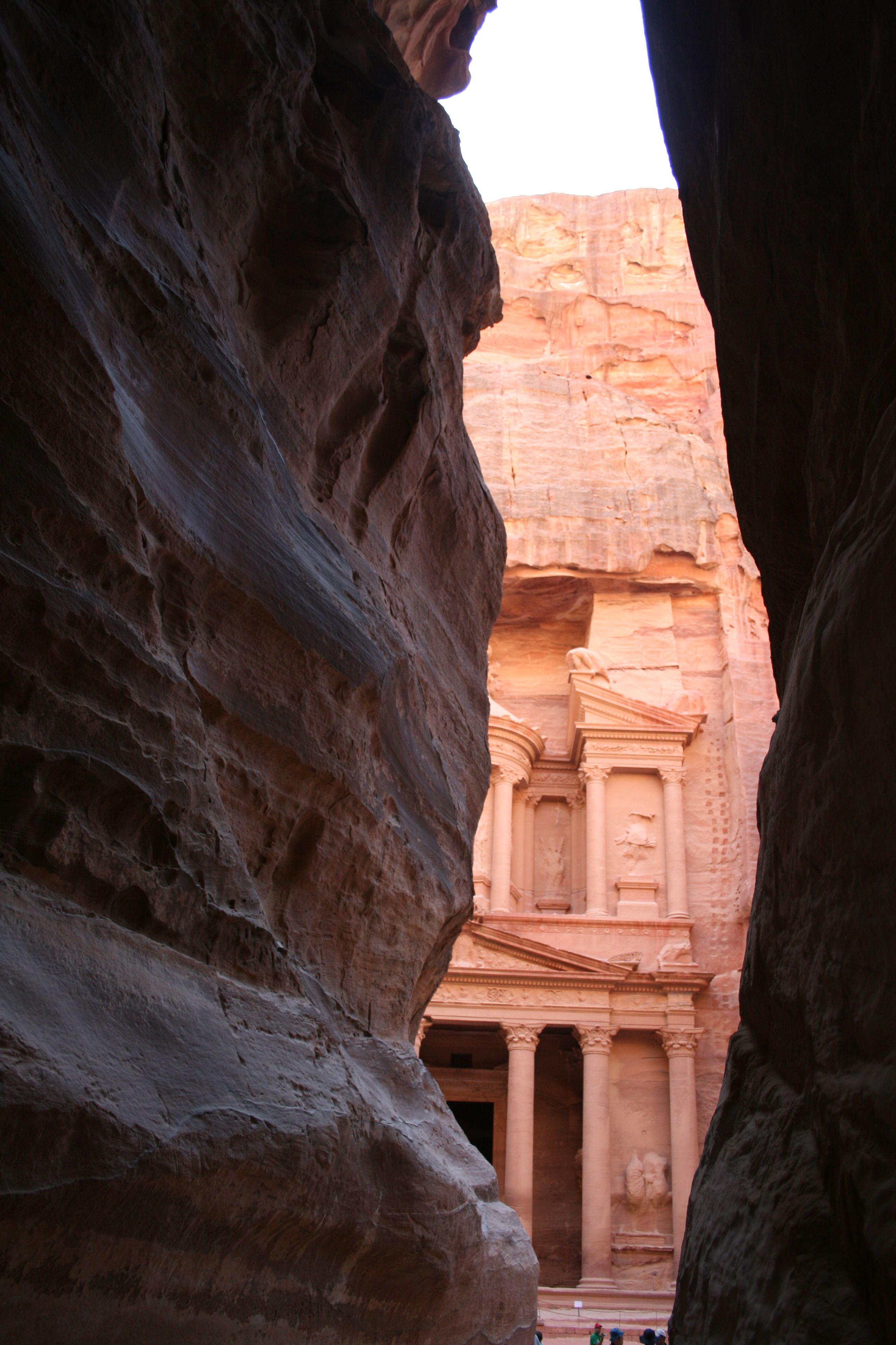 The Treasury, Petra, Jordan